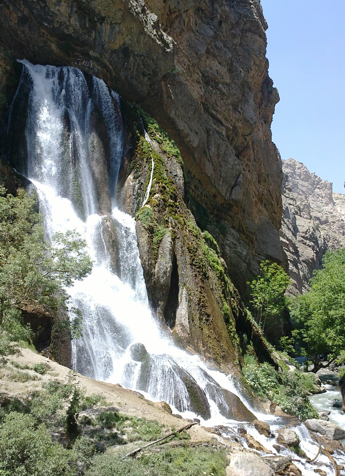 AbSefid Waterfall in Aligudarz county of Lorestan province